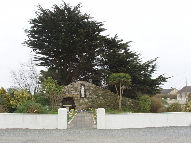 Shrine and trees near Kilmore On the R739 road coming into Kilmore.